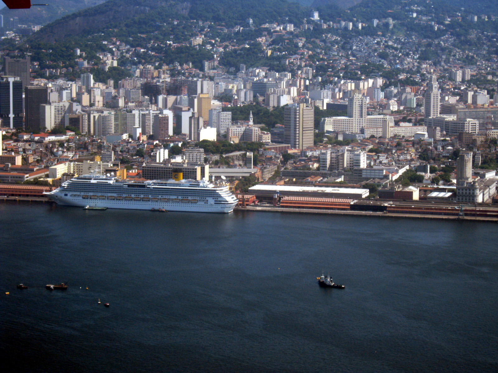 Costa Serena docked in Rio.